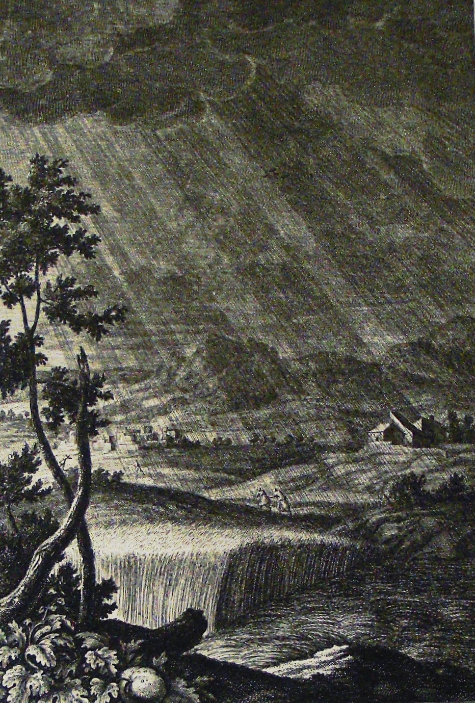 A print from the Phillip Medhurst Collection of Bible illustrations in the possession of Revd. Philip De Vere at St. George’s Court, Kidderminster, England.